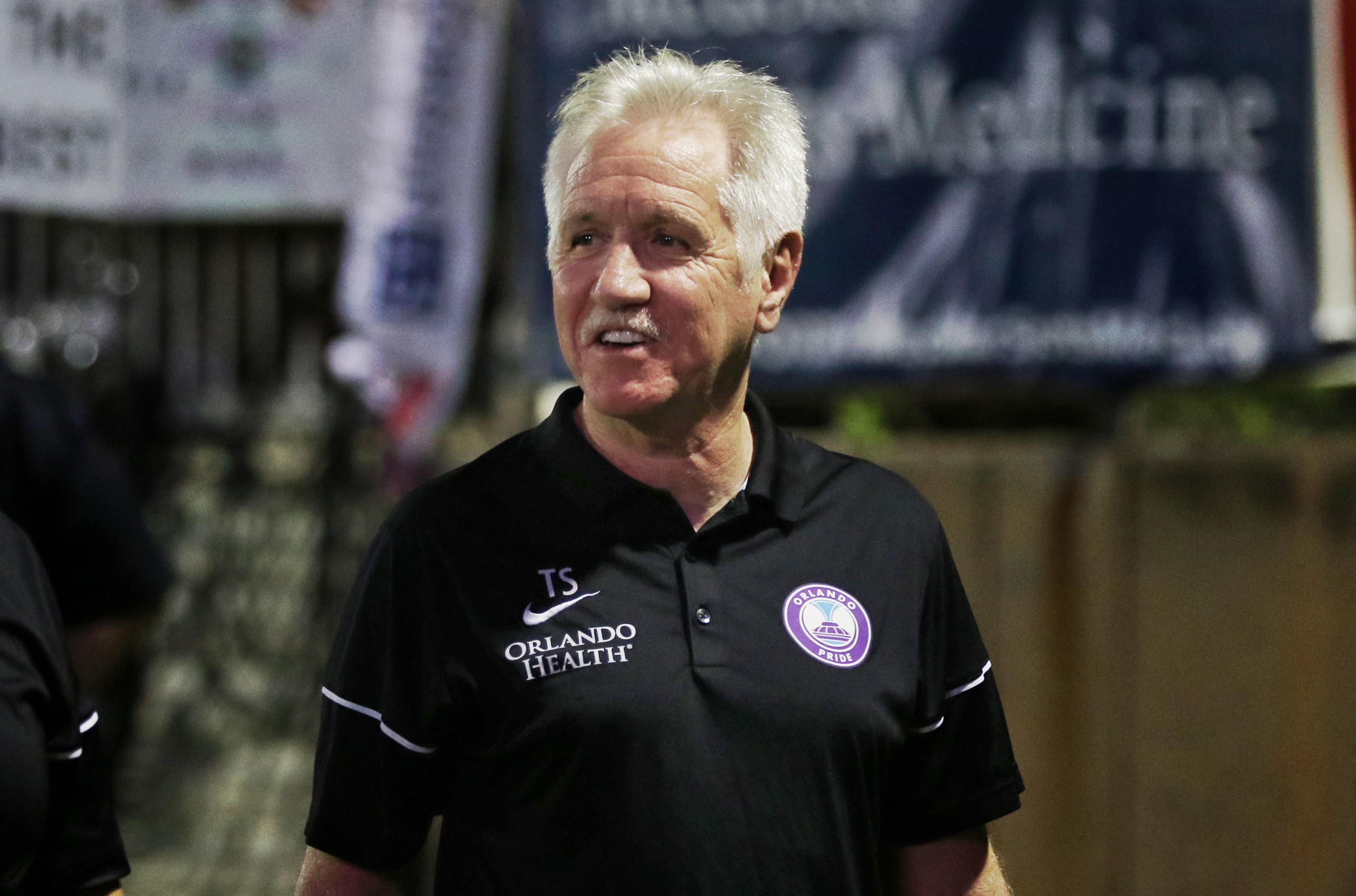 Washington Spirit vs Orlando Pride, 23 June 2018, Maryland SoccerPlex, Boyds, MD